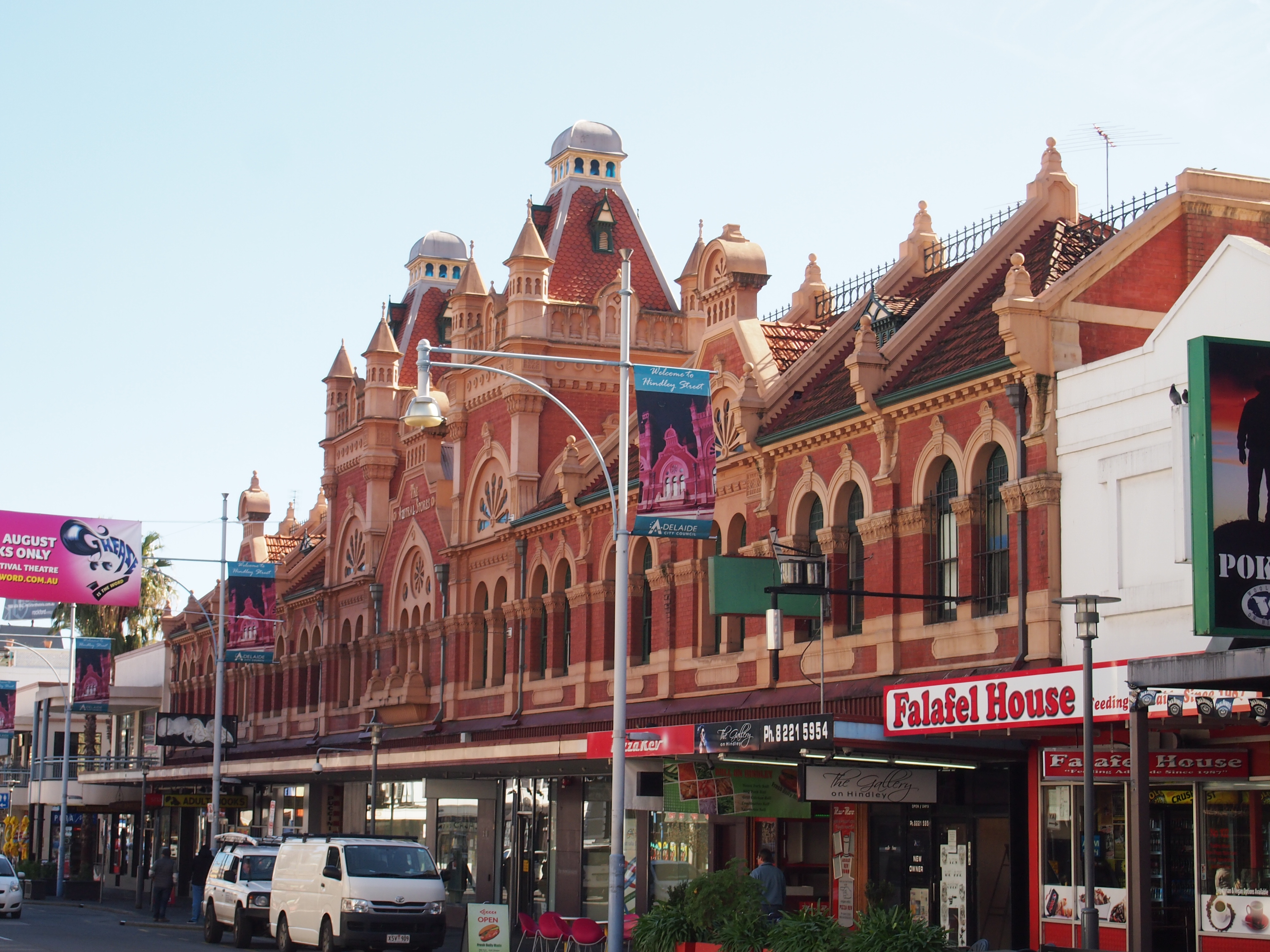 West's Coffee Palace, 110 Hindley Street, Adelaide, built in 1903. Original filename = P8043838.JPG